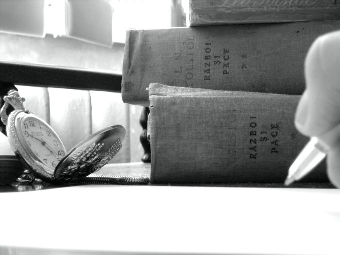 The novel “War and Peace” by Leo Tolstoy. Romanian version: “Război şi pace”